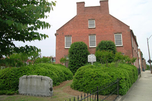 Liberty Point, in Fayetteville, North Carolina